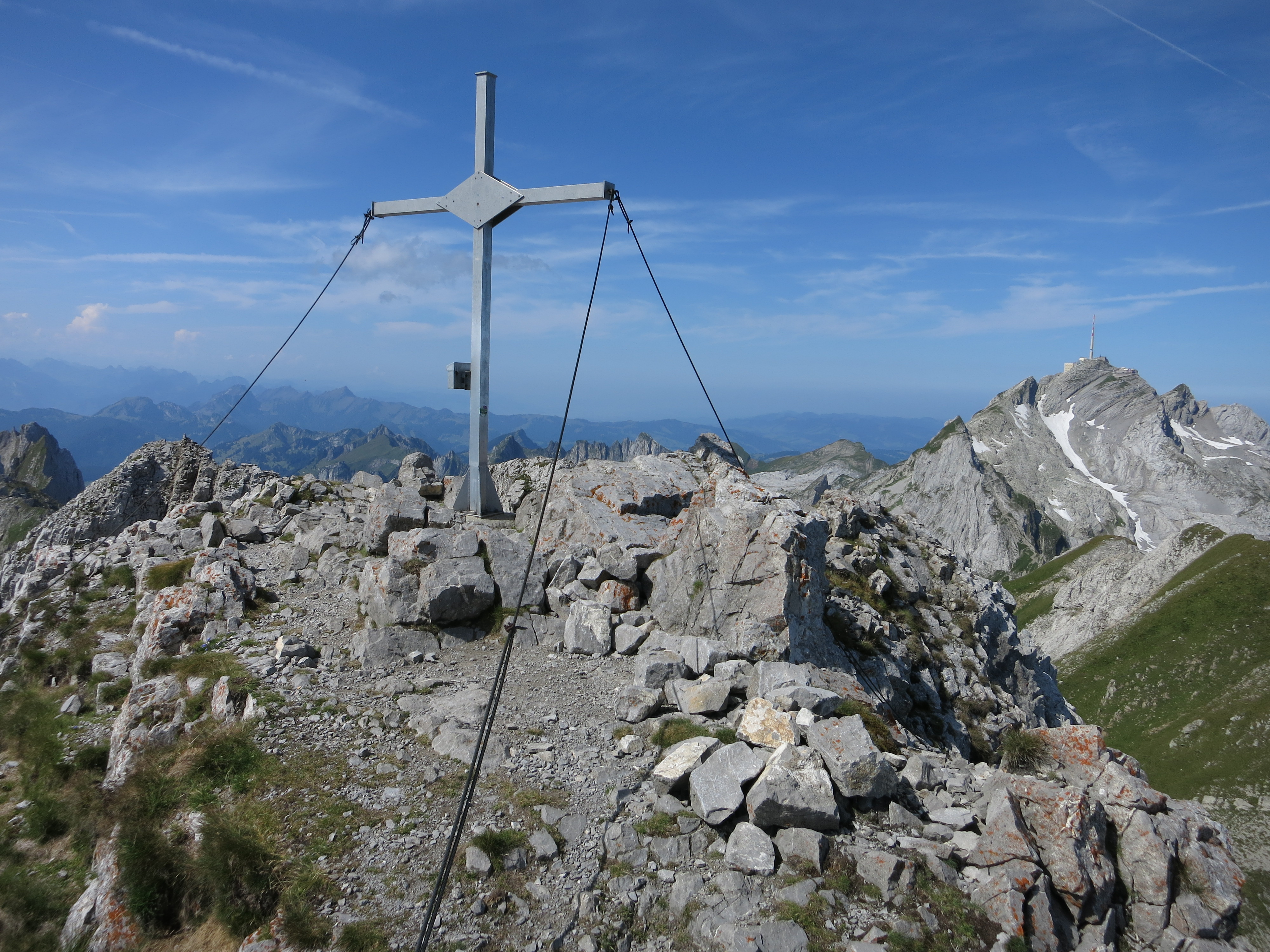 On top of mountain Altmann, Switzerland